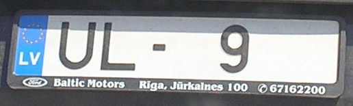 License plate of Latvia